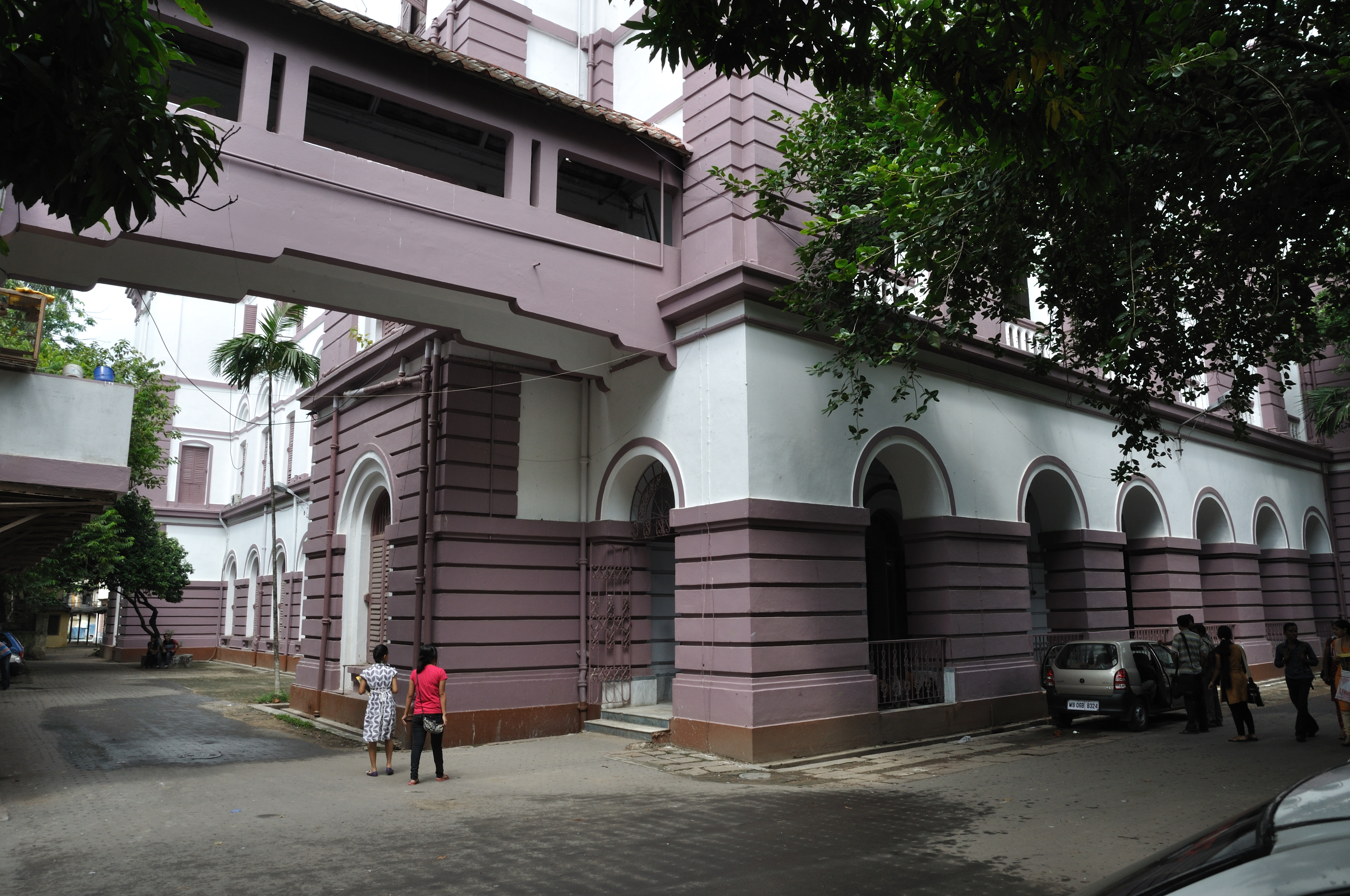 Presidency University, Kolkata (earlier Hindu College and Presidency College) is a unitary, state aided university, located in Kolkata, West Bengal. Established in 1817, it is the oldest educational institution in India.